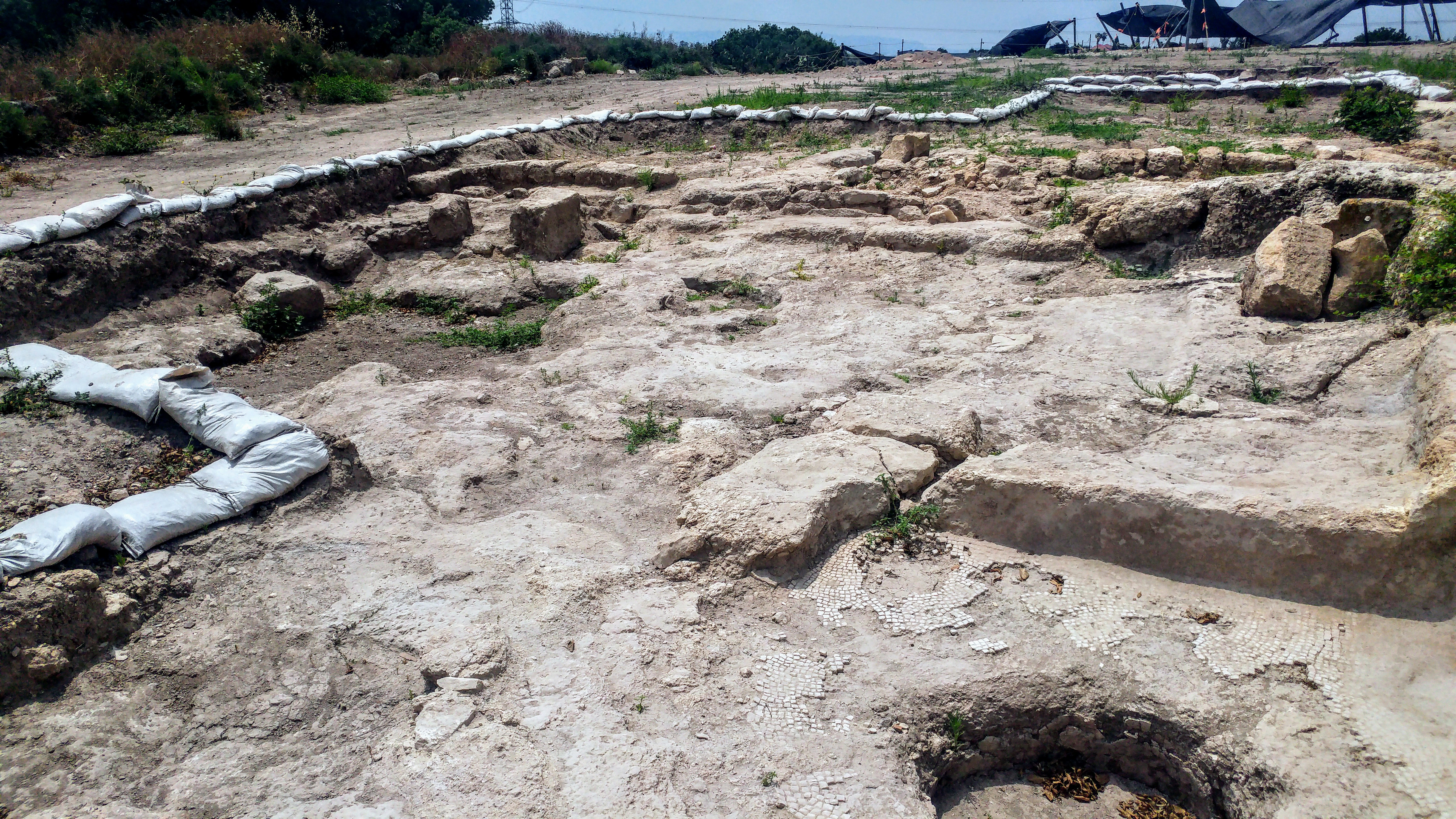 Archeological excavations in ancient Usha, Israel.